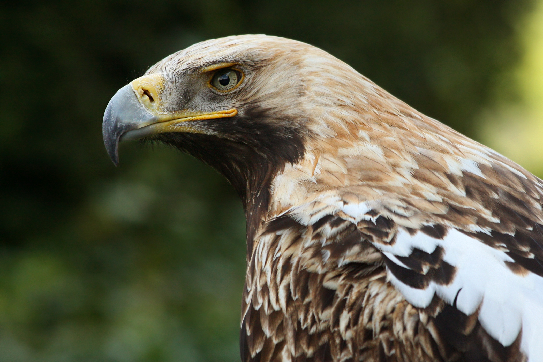 An Eastern Imperial Eagle.